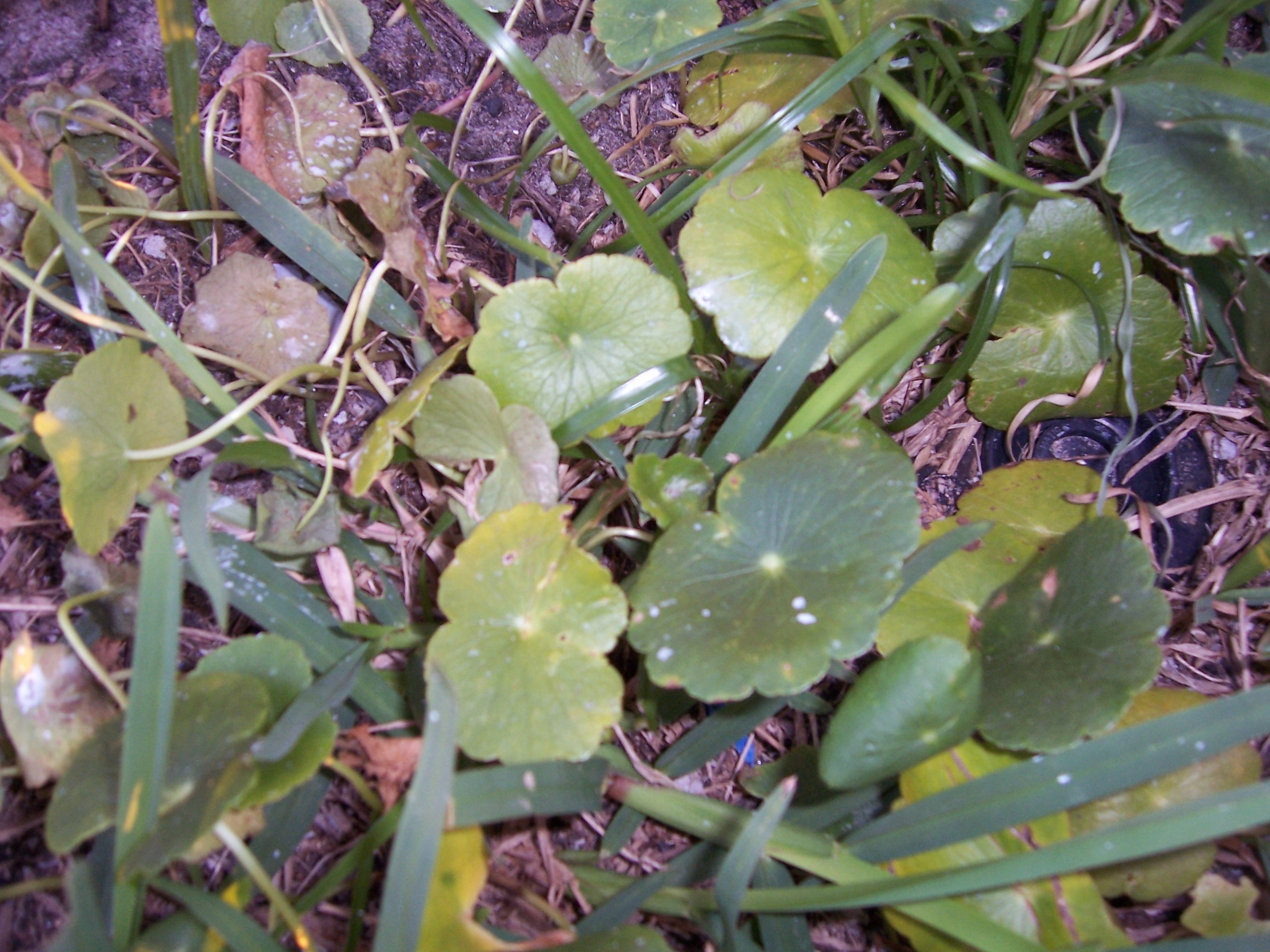 Dollarweed (Hydrocotyle umbellata) after treatment with herbicide.